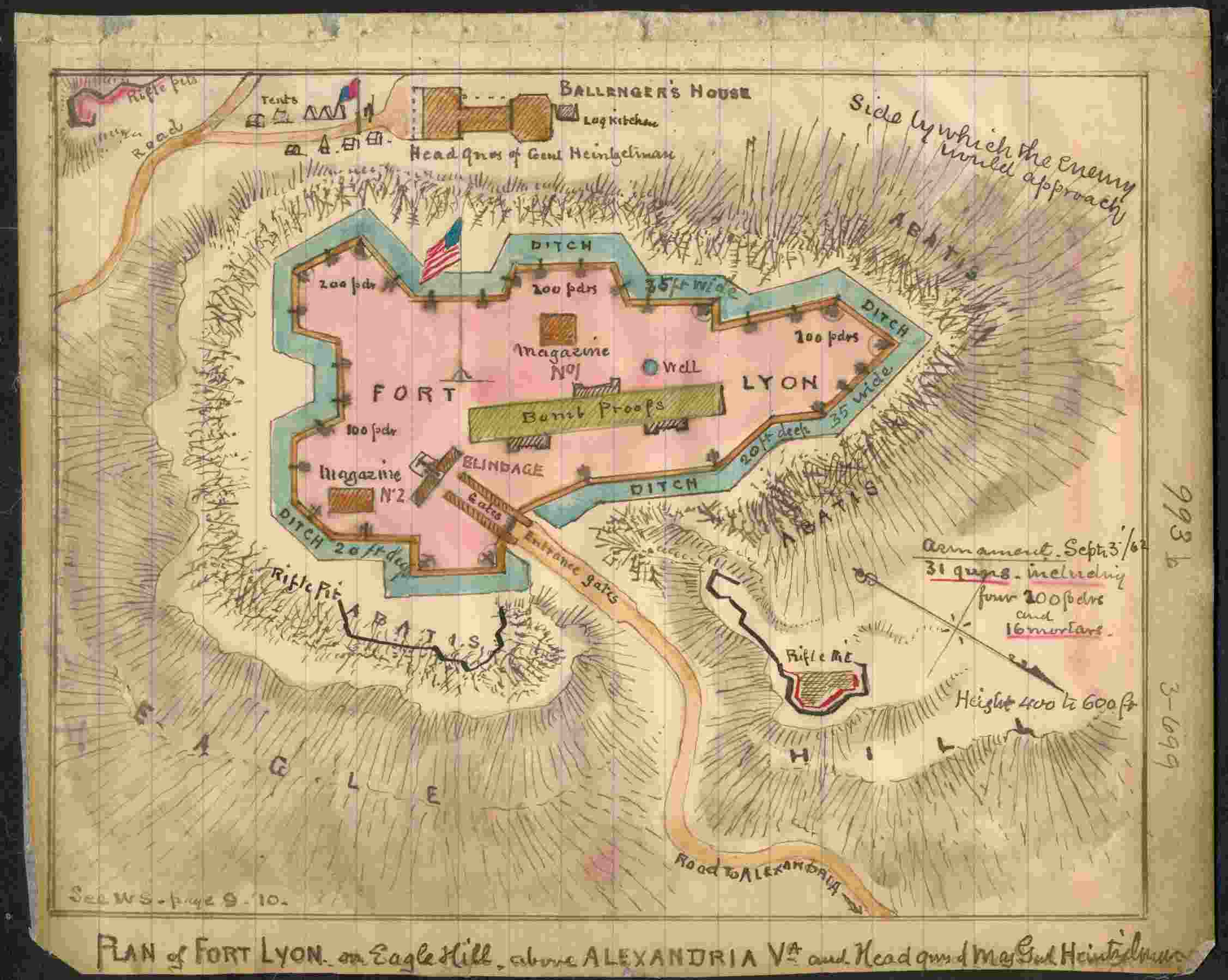 Shows a detailed drawing of Union Fort Lyon located on Eagle Hill in Fairfax County, Va. This fort was the headquarters for Major General Samuel Peter Heintzelman, U.S.A.